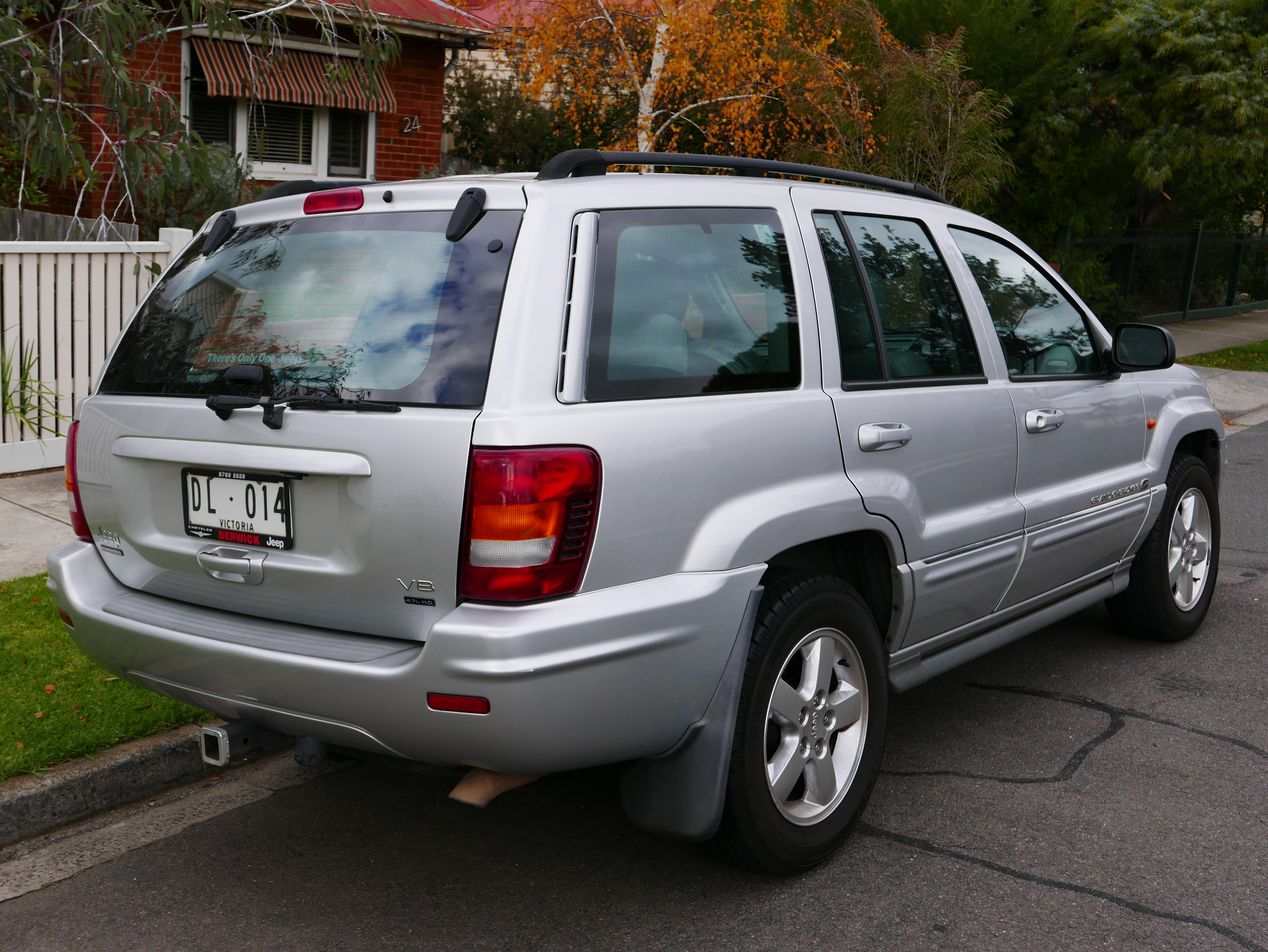 2004 Jeep Grand Cherokee (WG MY04) Overland wagon. Photographed in Northcote, Victoria, Australia. Vehicle registration enquiry resultsJurisdictionVictoriaRegistrationDL014Chassis code1J8G868J74Y134379Engine code4Y134379Compliance date2004-02Year of manufacture2004